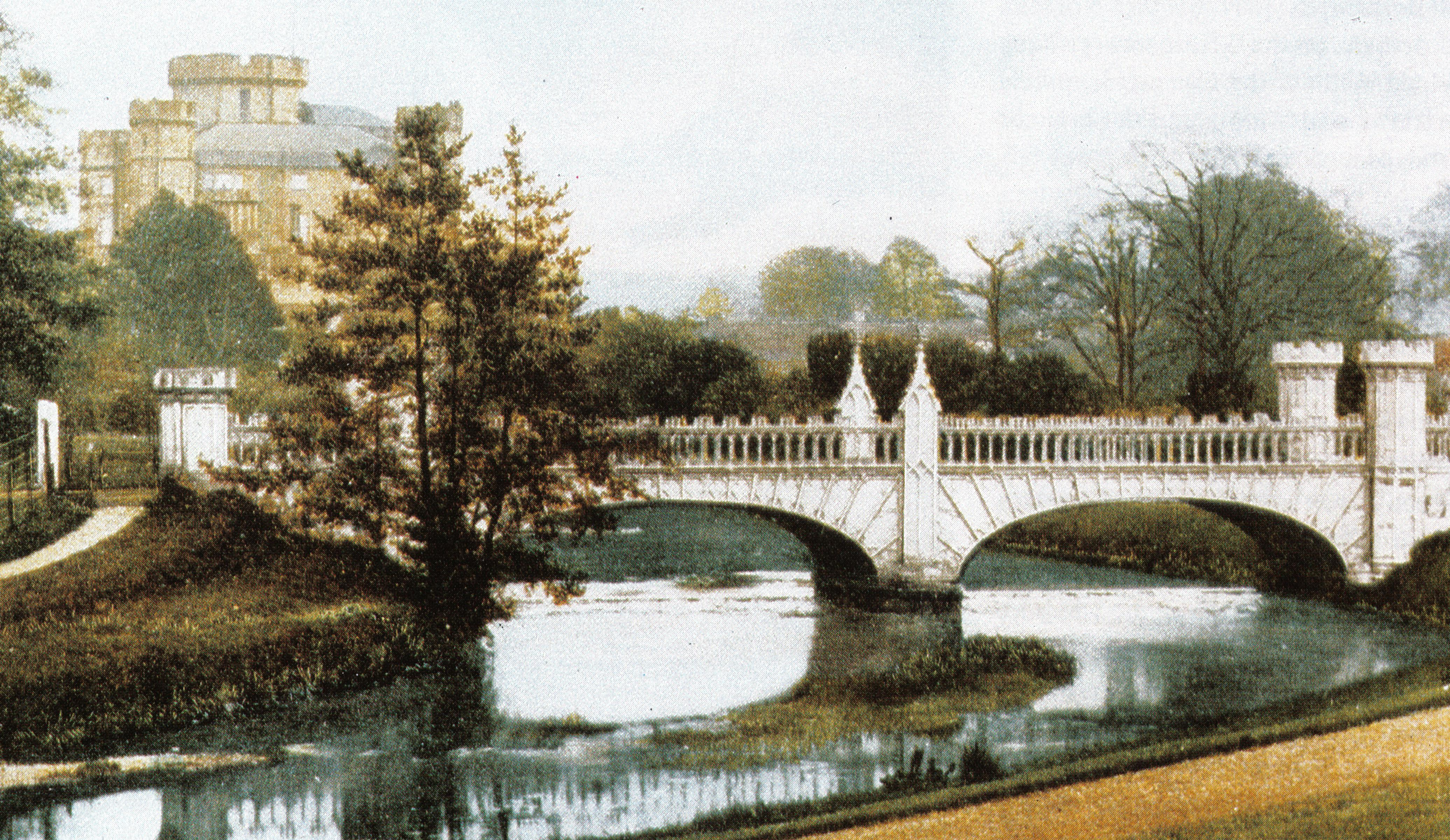 The Eglinton Tournament Bridge, Irvine, Ayrshire, Scotland.